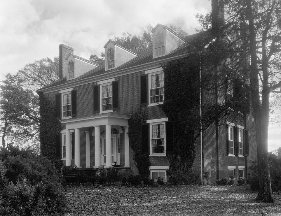 "Mountain View," located 2 miles south of Chatham, Virginia, in Pittsylvania County, Virginia. 8 x 10 black-and-white photographic negative by the American photographer and photojournalist Frances Benjamin Johnston. Circa 1930-1939. Part of the Johnston archives at the Library of Congress, donated to the Library by the photographer in perpetuity, hence there are no restrictions on publication, as per the Library web site.